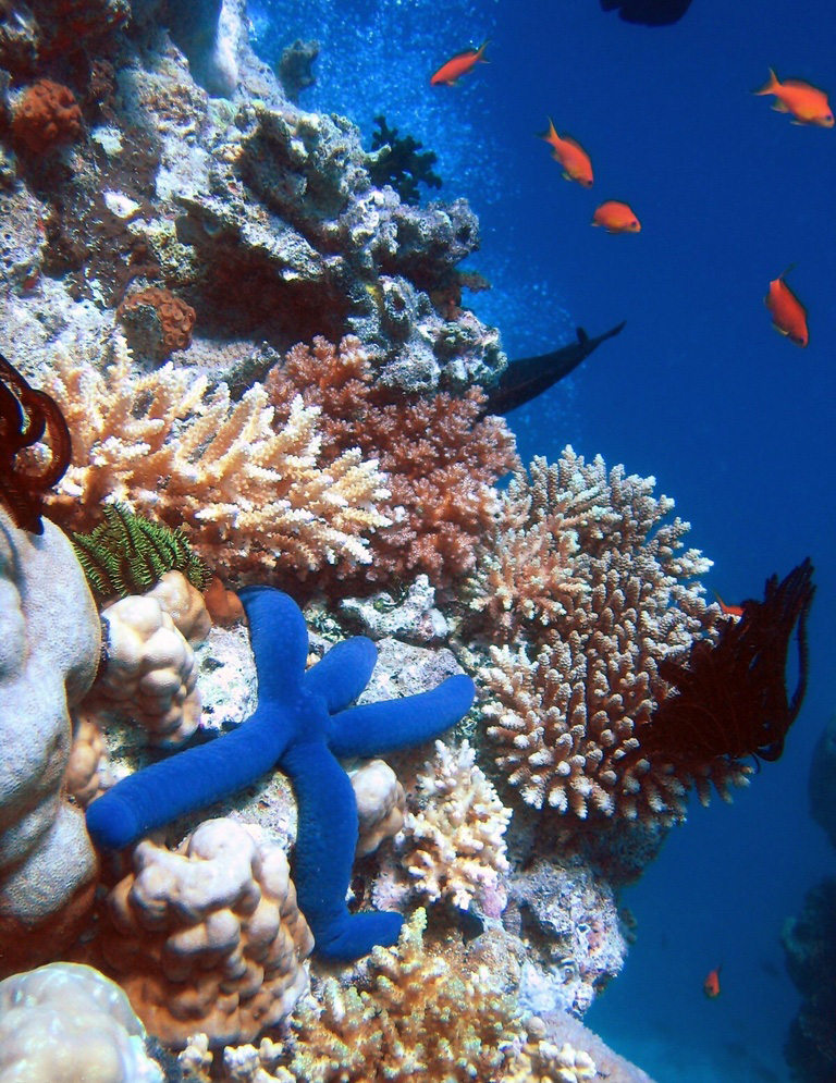 A Blue starfish (Linckia laevigata) resting on hard Acropora coral. Lighthouse, Ribbon Reefs, Great Barrier Reef.